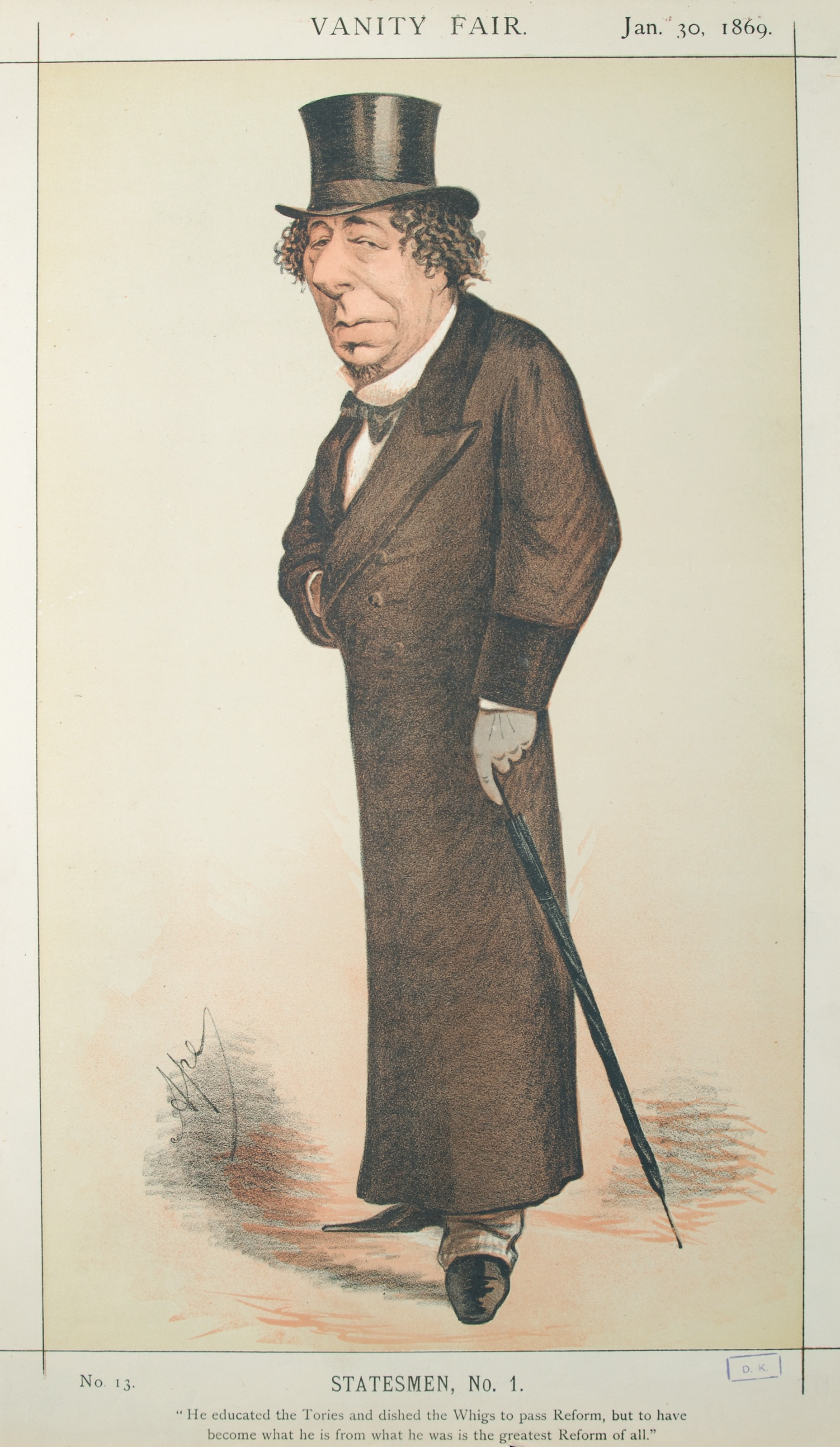 Caricature of Benjamin Disraeli. Caption reads: "No.13. He educated the Tories and dished the Whigs to pass Reform, but to have become what he is from what he was is the greatest Reform of all".